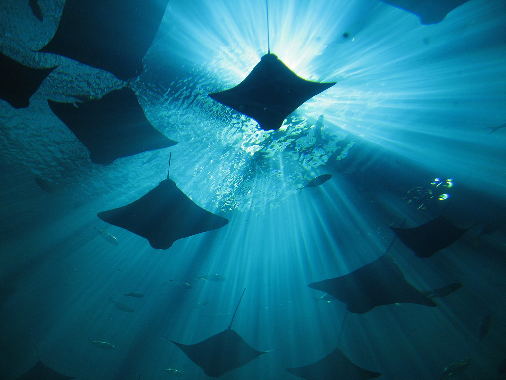 Cownose rays (Rhinoptera bonasus) at the Georgia Aquarium